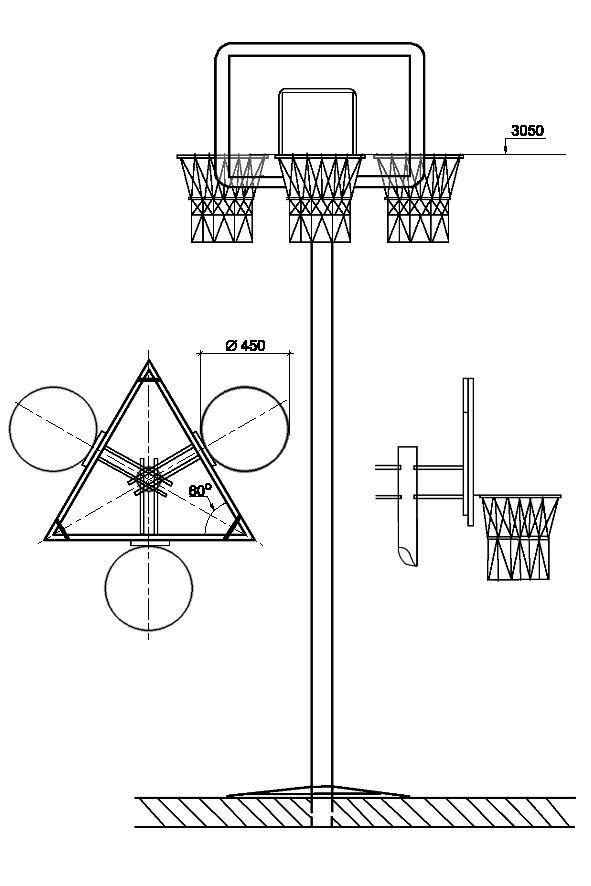 Piterbasket goals